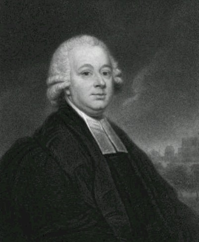 Portrait of Nevil Maskelyne (1732-1811), the British astronomy